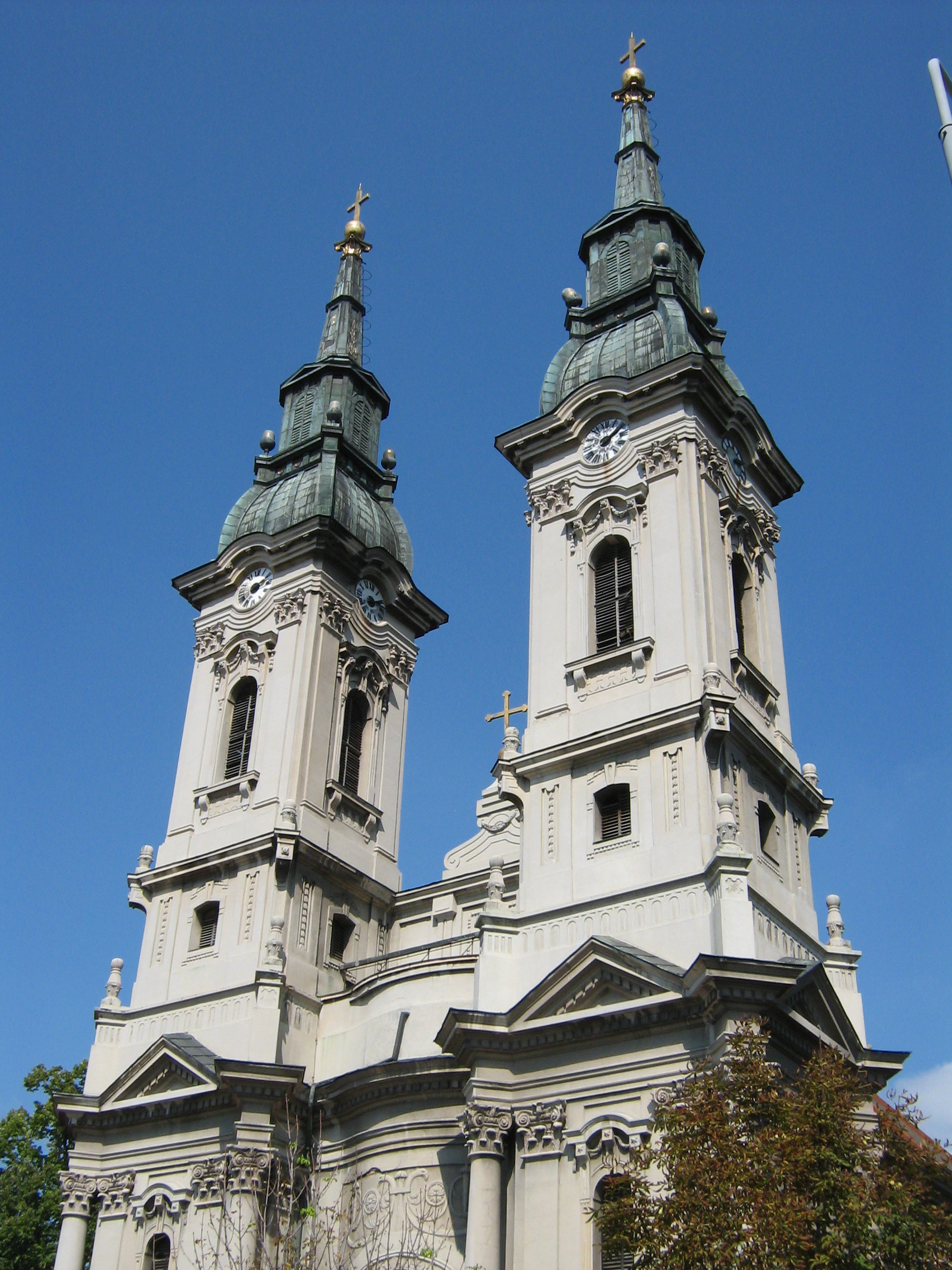 Church of Assumption in Pančevo/Uspenska crkva u Pančevu